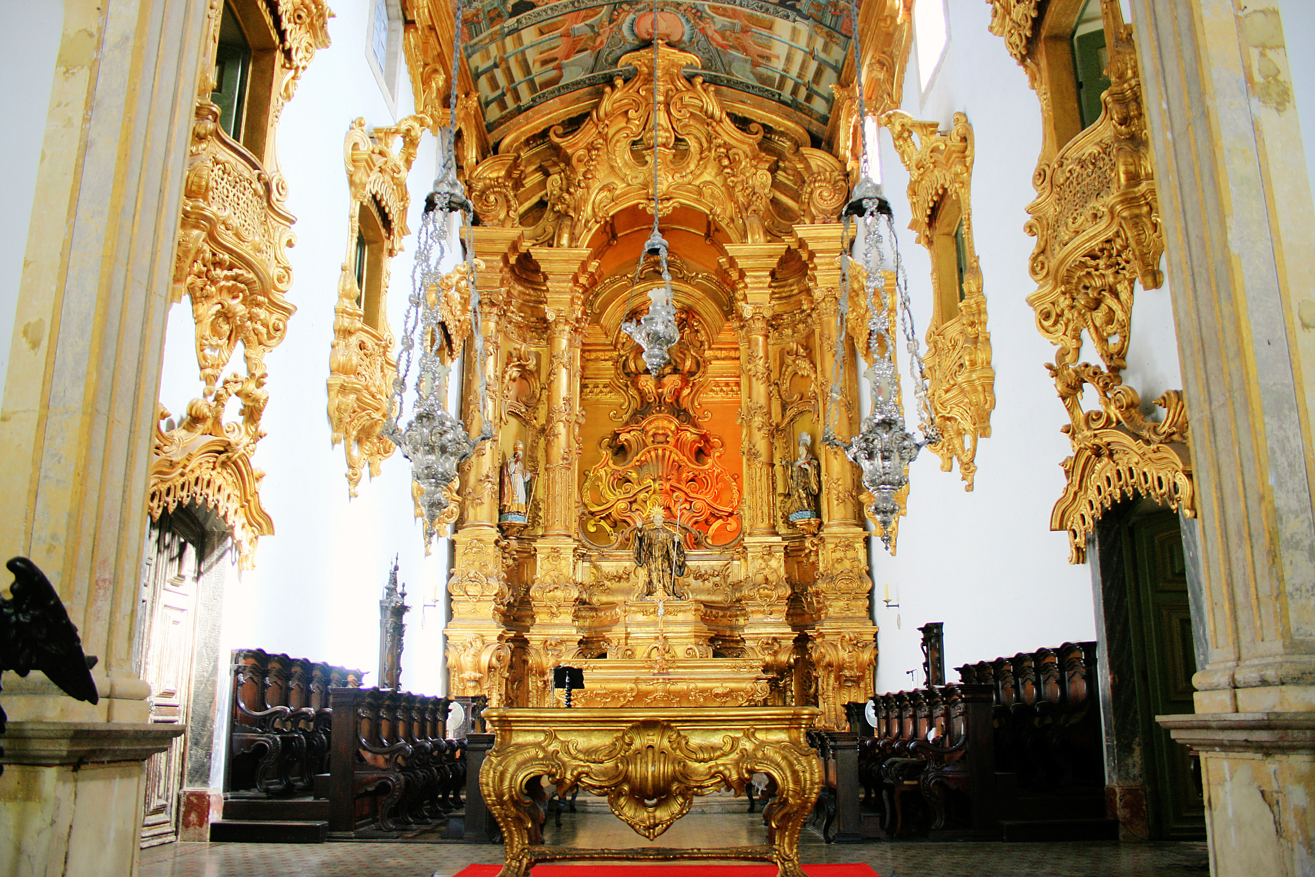 Main altar of São Bento church in Olinda, Brazil